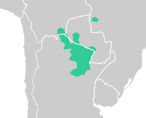 Mataco-guicurú languages (Matako-Waikurú)